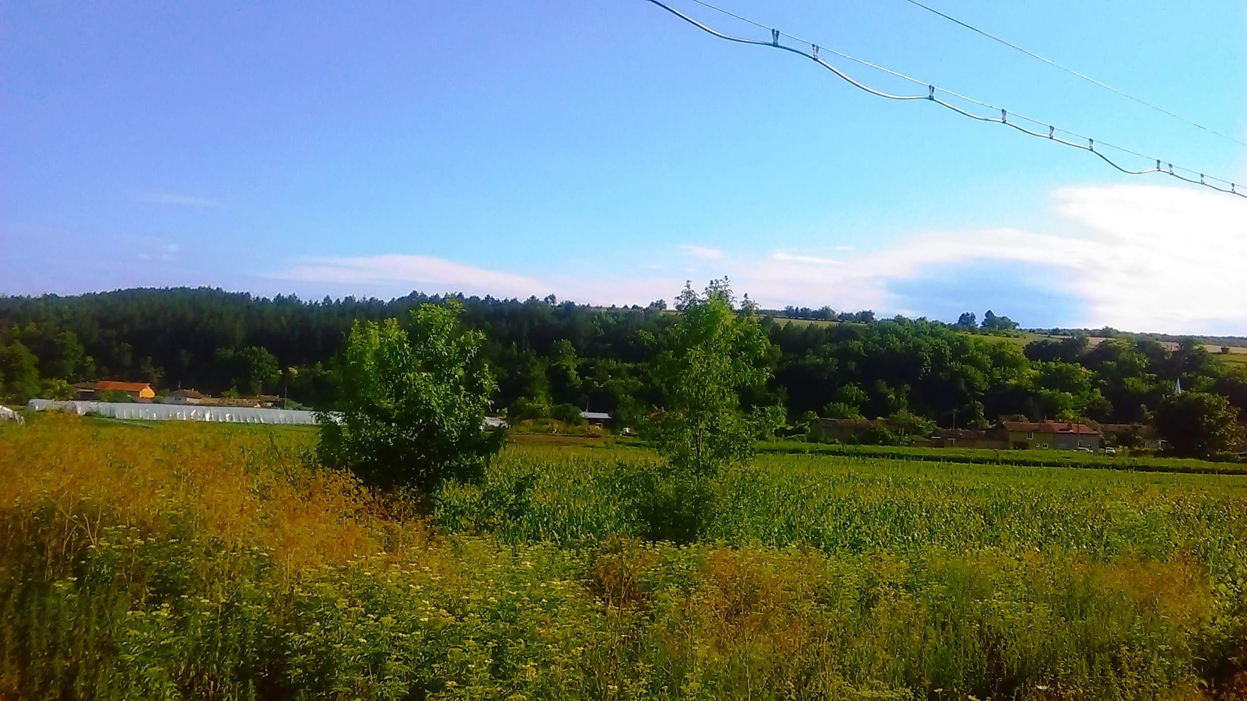 Kamenar cropfields down Beli lom river